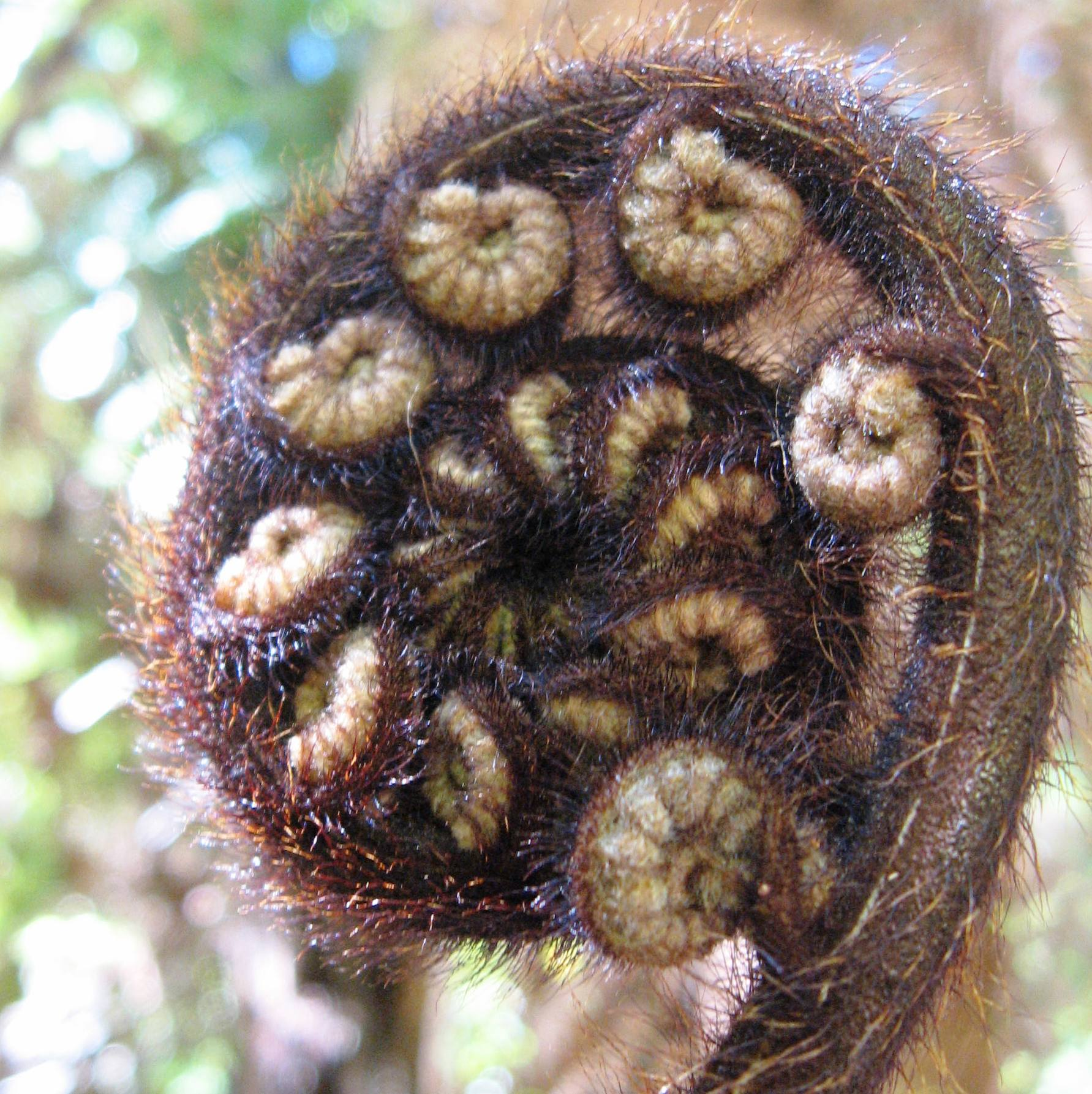 Cyathea dealbata. Silver fern frond in Rotorua.